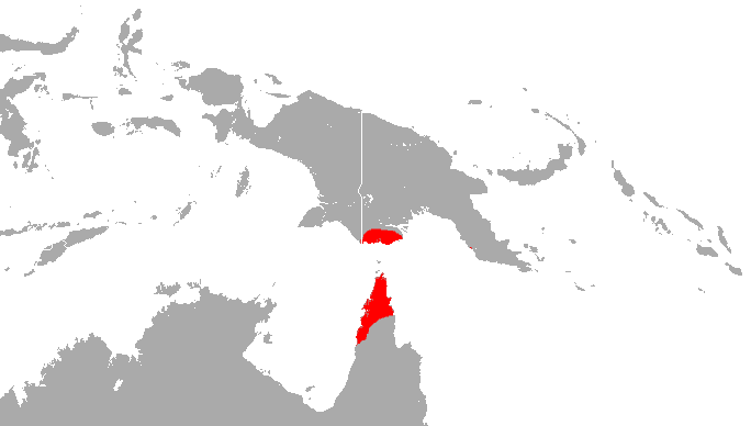 Troughton's Pouched Bat (Saccolaimus mixtus) range